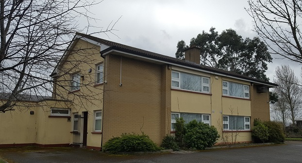 The Jesuit community house on Woodhazel Terrace in Shangan in Ballymun